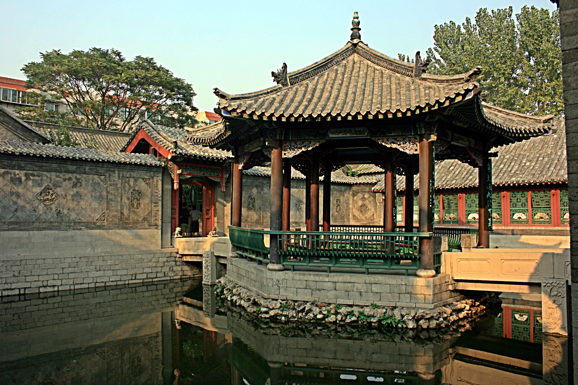 A courtyard pavilion in the 10000 Bamboo Garden in Baotu Spring Park, Jinan, Shandong, China.